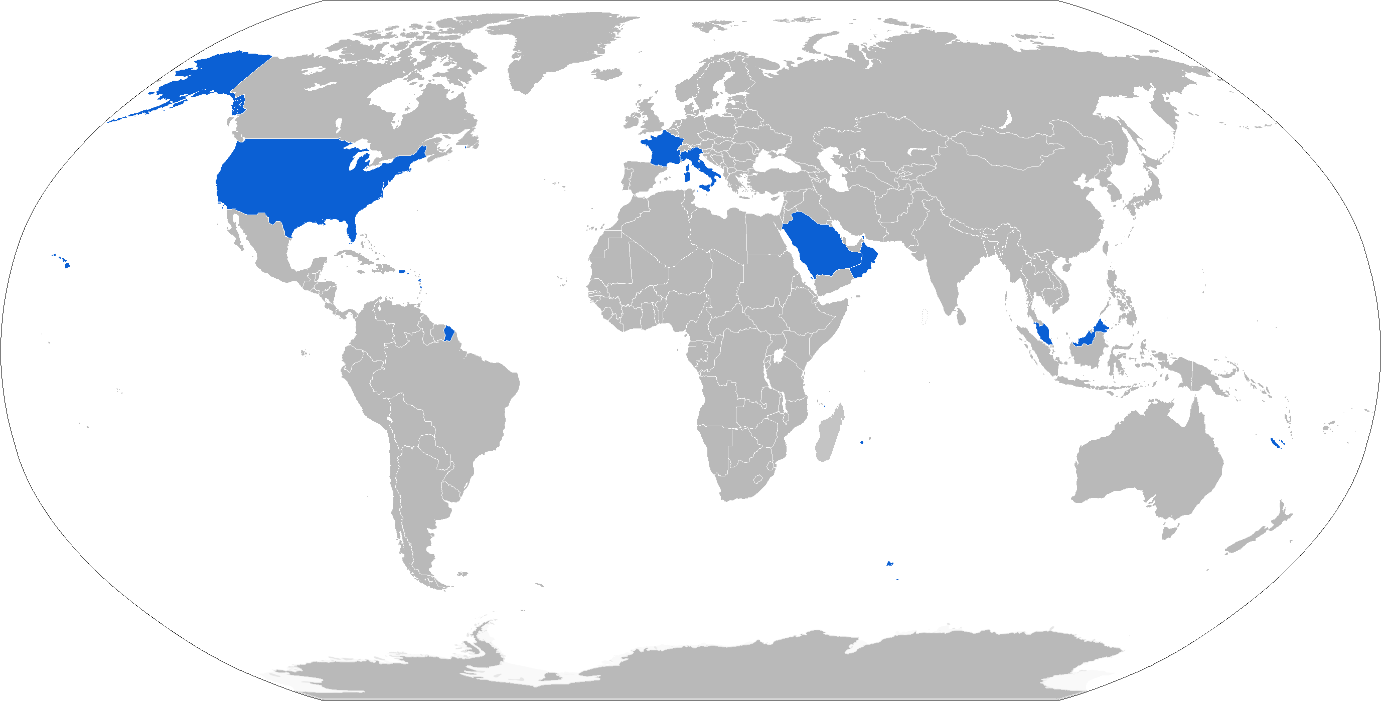 Map of Dragon Fire operators in blue